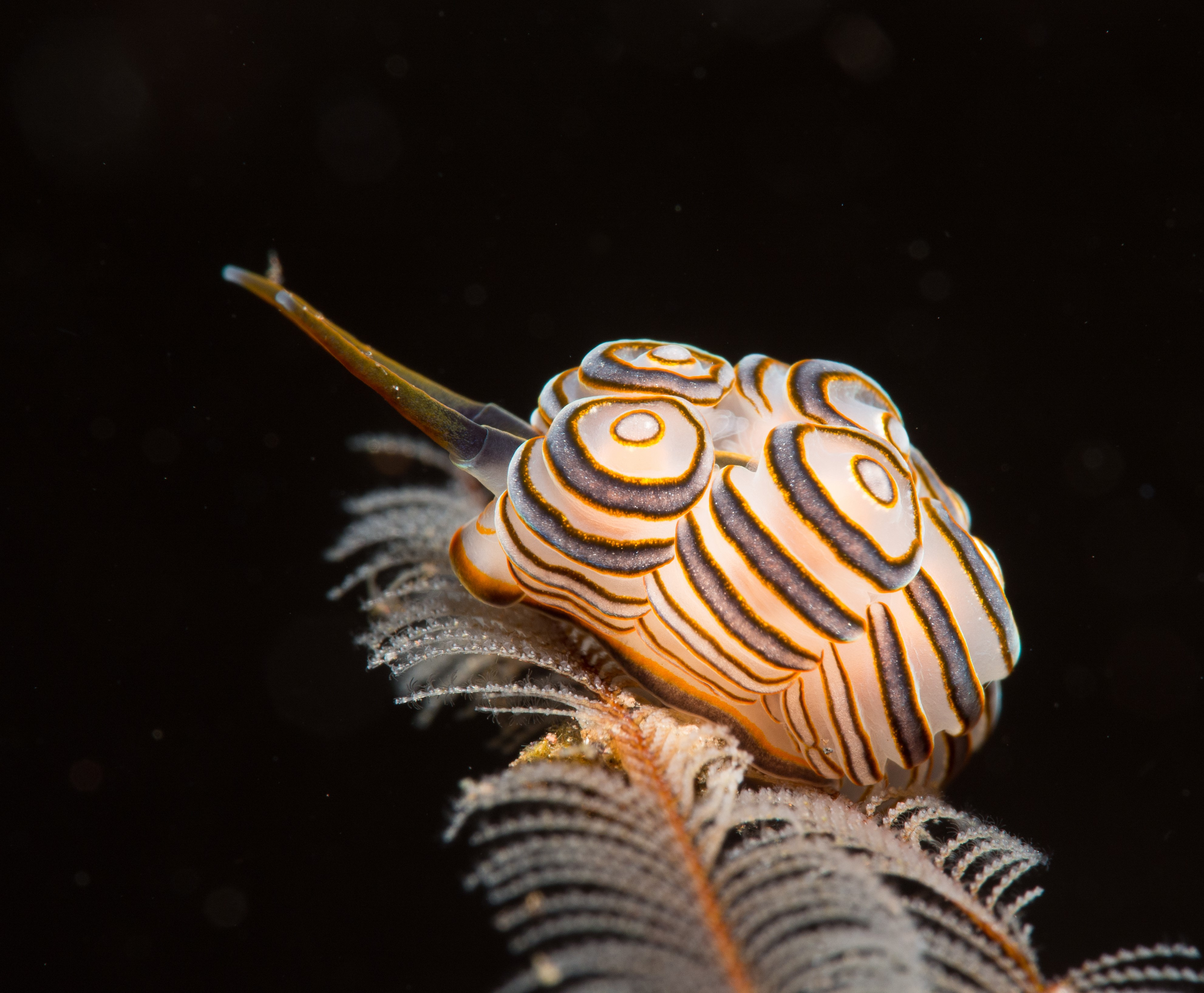 Doto greenamyeri